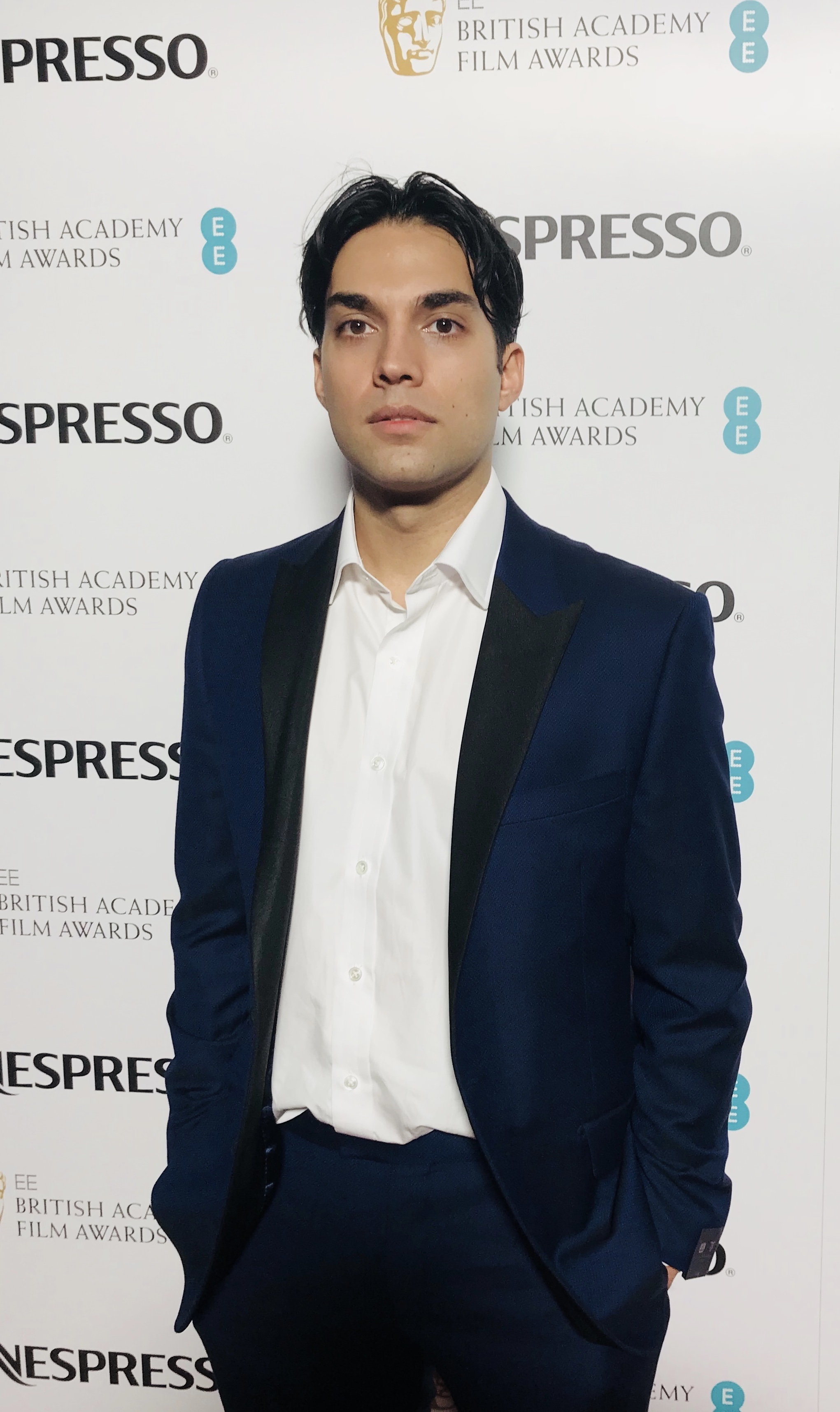 James Floyd